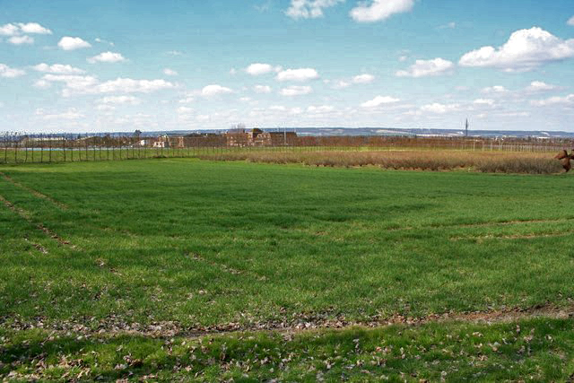 East Malling Research Station. Formerly Wye College Fruit Experiment Station, this horticultural research station has existed since well before the First World War. The station is famed for the classification, testing and standardization of fruit tree rootstocks, work initiated by Sir Ronald Hatton (1886 - 1965).